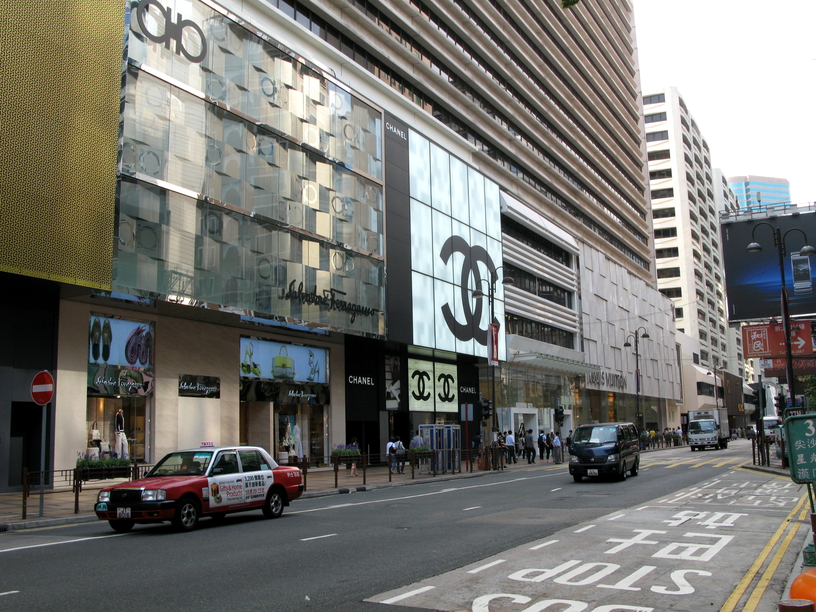 Ocean Center 海洋中心